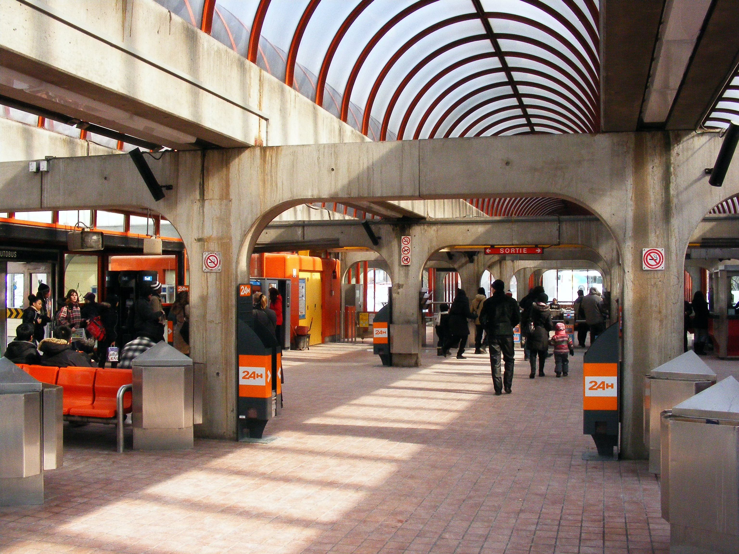 Entrance to Angrignon métro station in Montréal